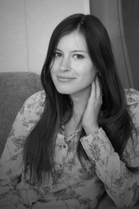 Natalia Pogonina